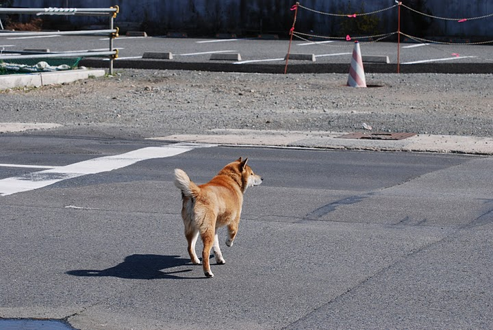 One of the few signs of life in Namie, Fukushima Pref., Japan, April 12 2011 (VOA - S. L. Herman)